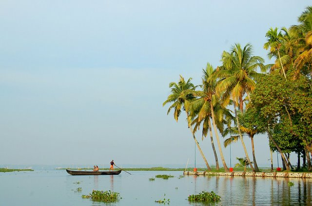 A couple enjoying the serenity of Kerala backwaters in a canoe. An eco-friendly way to enjoy the beautiful landscape. Picture taken near Kumarakom bird sanctuary